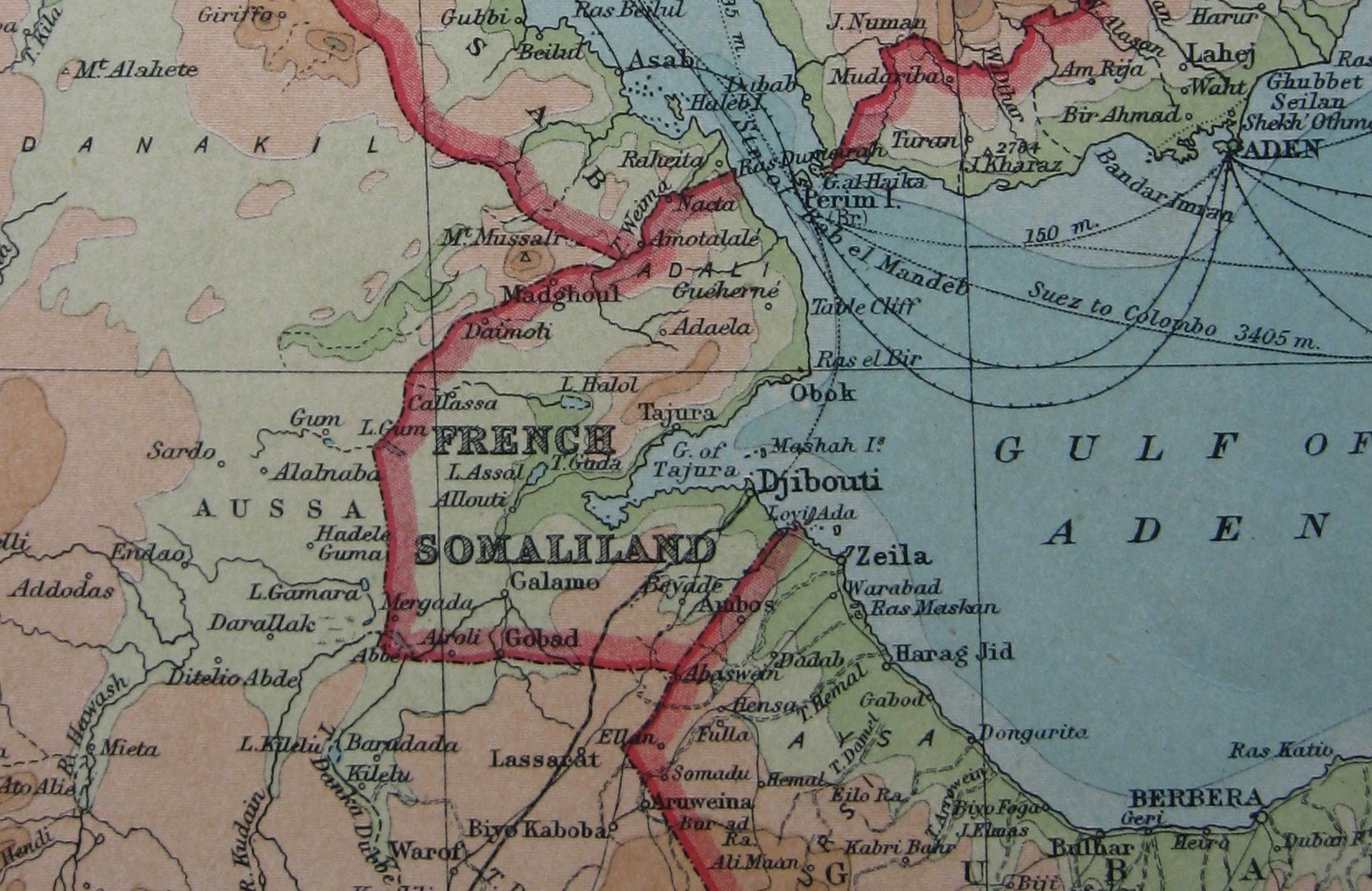 French Somaliland and Gulf of Aden area. Cropped from a map of Egypt and the Red Sea in The Times Survey Atlas of the World (1922).